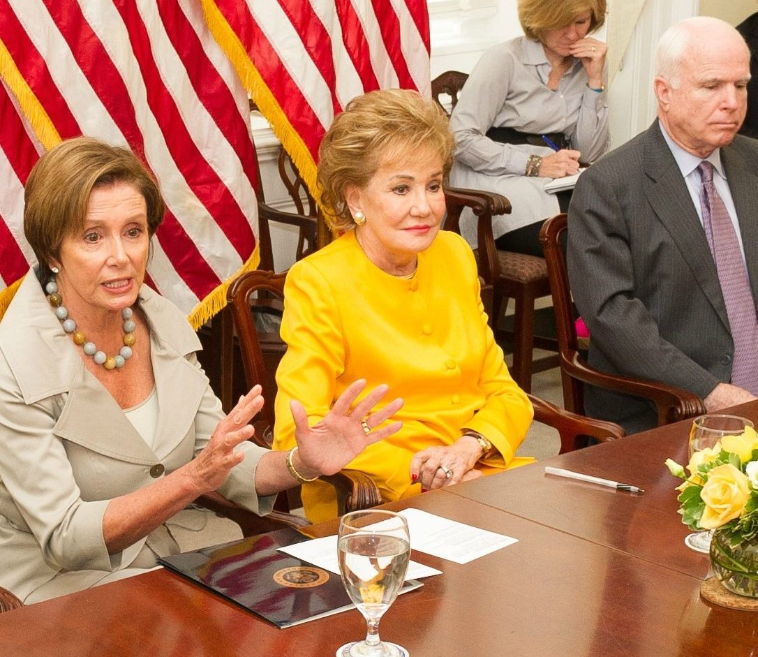 Leader Pelosi joined Former Senator Elizabeth Dole, Senator McCain, Senator Reed, and Congressman Miller to unveil the bipartisan Hidden Heroes Congressional Caucus for military and veteran caregivers.